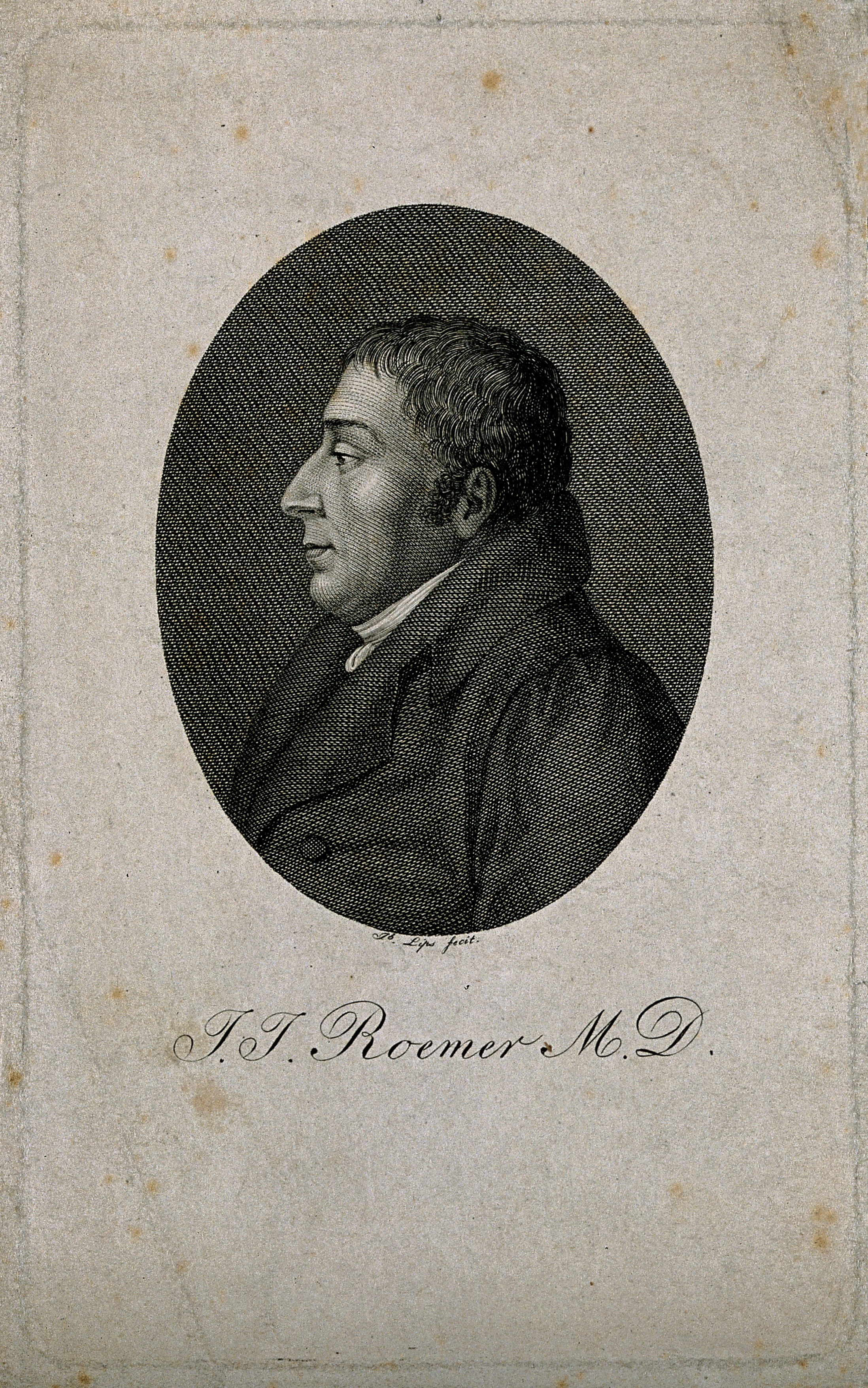 J.J. Roemer, director of the botanic garden at Zurich. Engraving by J.H. Lips. Iconographic Collections Keywords: portrait prints; engravings; Johann Heinrich Lips; Johann Jacob Roemer; roemer, johann jacob, 1763-181